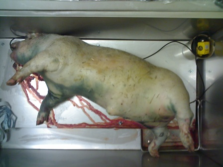 Decomposing pig